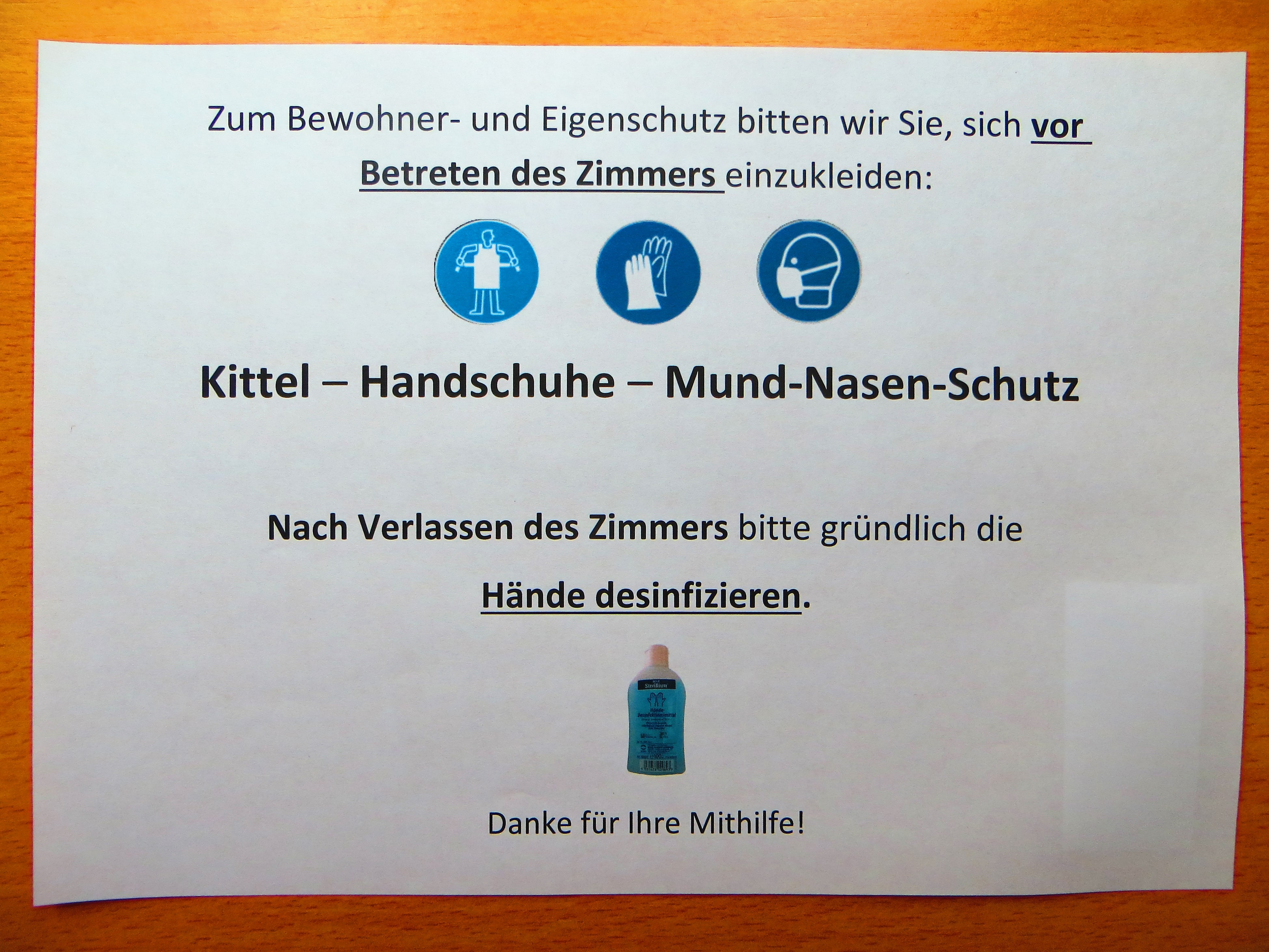 Sign indicating controlled entry (isolation in health care)